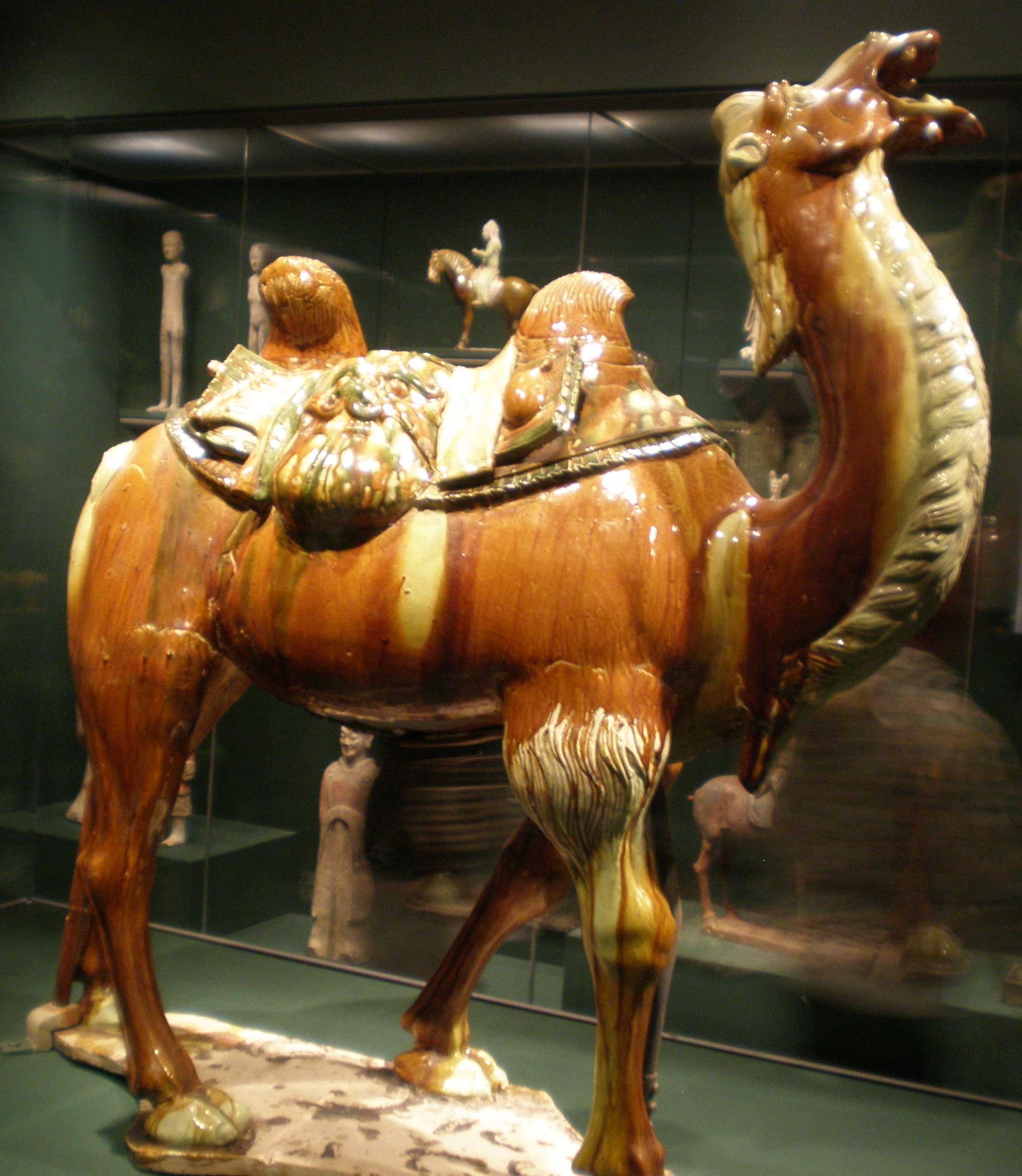 Glazed earthenware camel from Shaanxi or Henan province, China, Tang Dynasty, approx. 690-750. On display at the Asian Art Musem of San Francisco. B60S95 See also File:Camel left side SF Asian Art Museum B60S95.JPG.